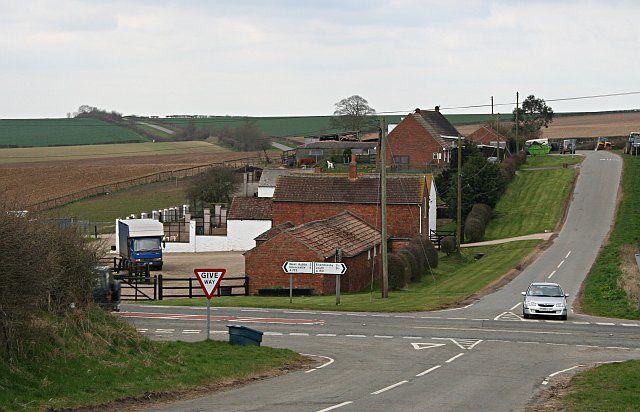 The Southwold Hunt Kennels Speculation that the ban on foxhunting would lead to the killing of unwanted foxhounds appear to have proved unfounded here, where presumably hunting is still taking place and the foxhounds are noisily in evidence. When they start howling on a still night they can be heard from miles away.